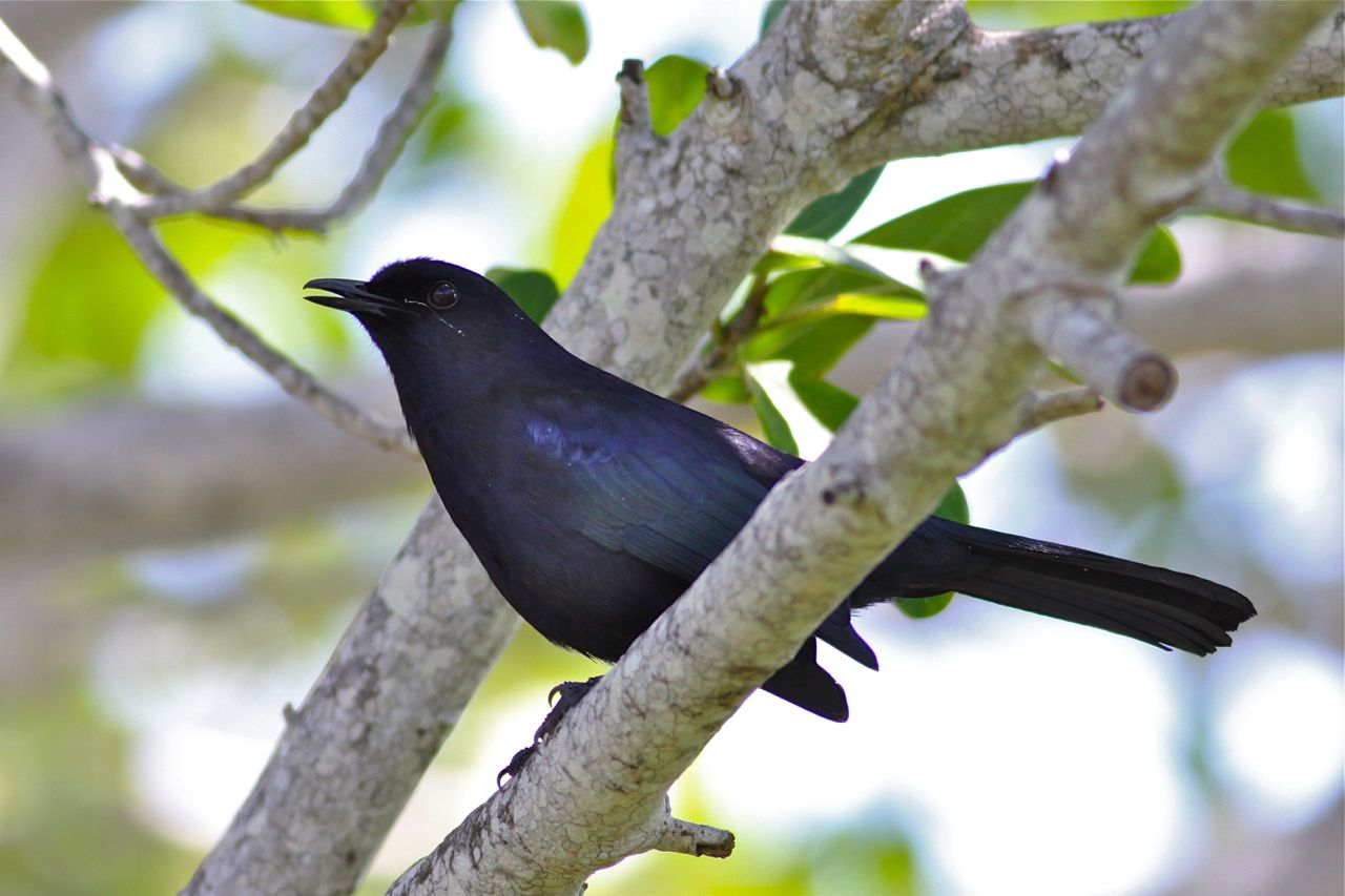 Black Catbird (Melanoptila glabrirostris) on Ambergis Caye, Belize